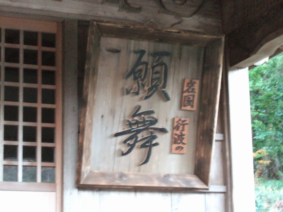 "Gan-mai" panel on main shrine of "Aratama-sya". (荒玉社の社殿に掲げられている"願舞"の額)